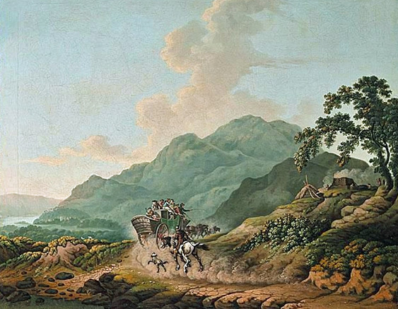 Painting of horse-drawn carriage under Skiddaw